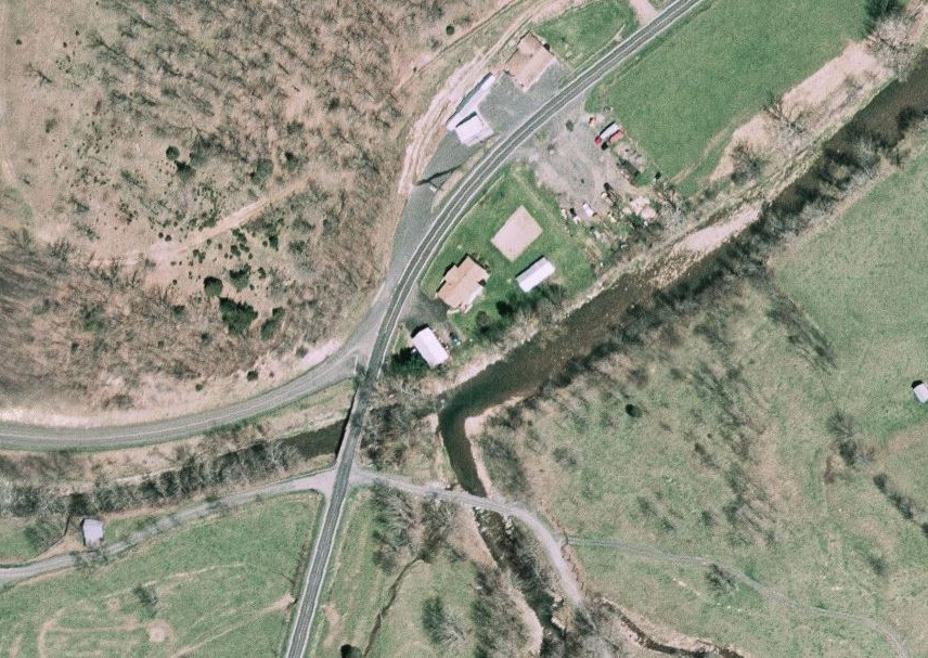 Aerial view of Forks of Waters, Virginia as seen in the National Map Viewer.